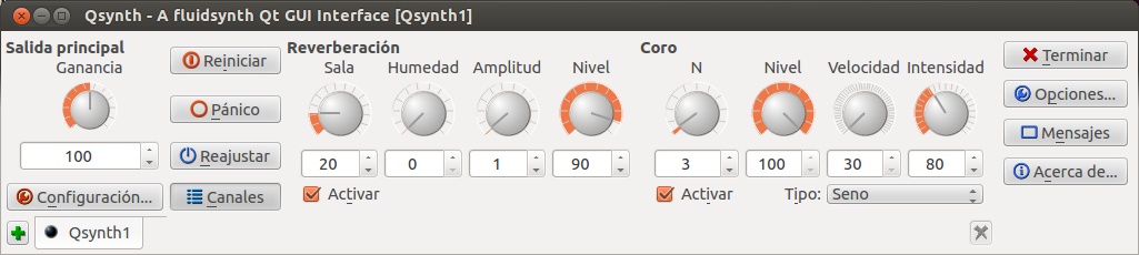 Qsynth main window